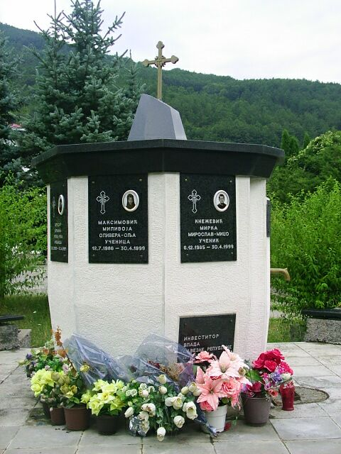 Memorial to the victims of 1999 bombing of SRJ (children) in the village of Murino, Montenegro